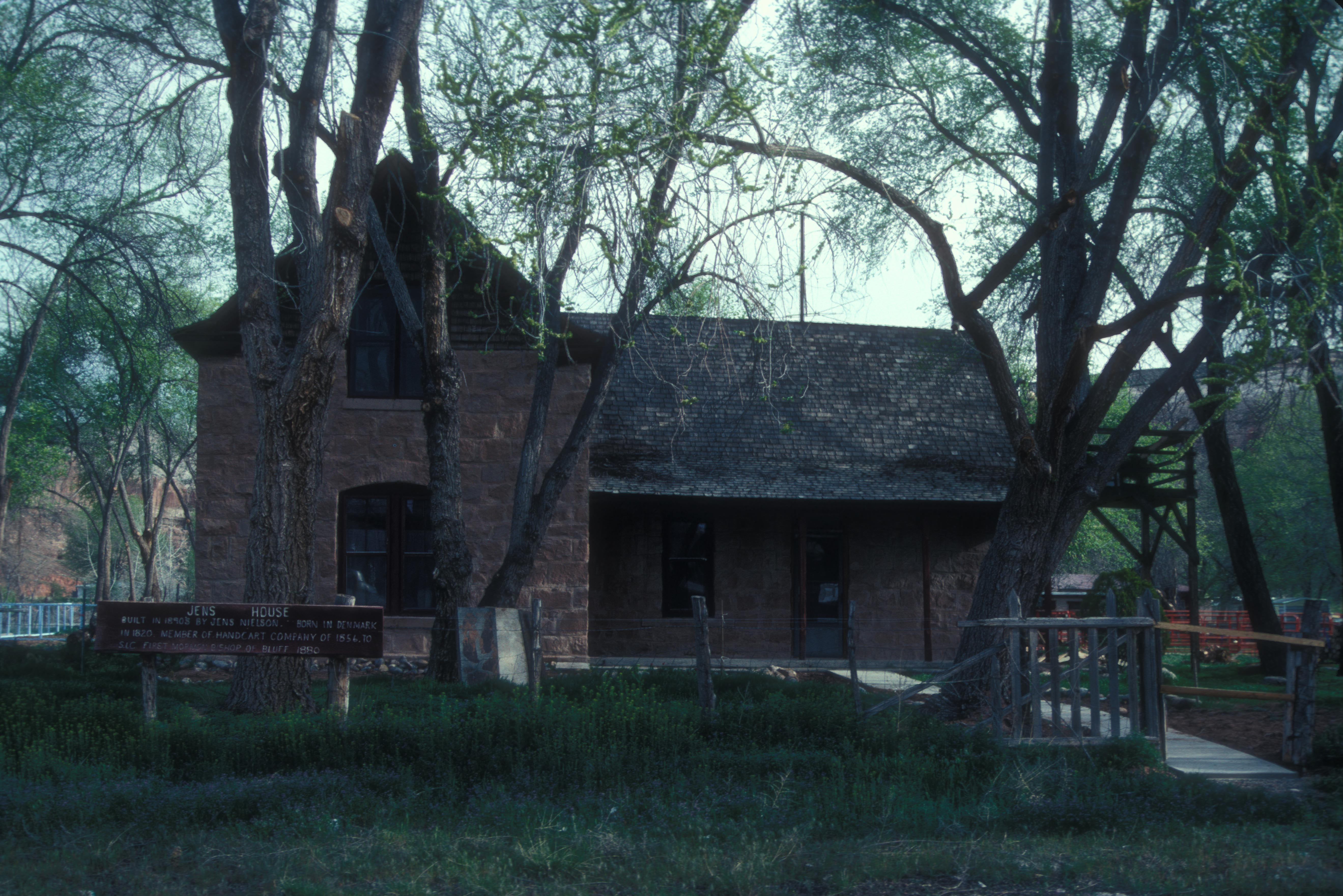 House built in the 1880's by Jens Nielson, who was the first Latter-day Saint bishop in Bluff, Utah.